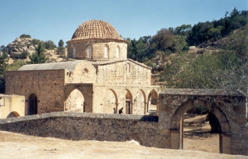 Church at Antiphonitis - photo by User:Jeandunston